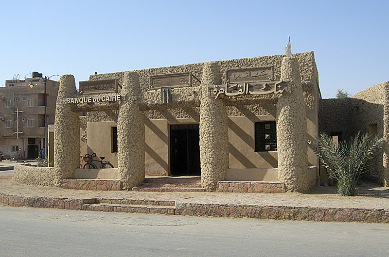 Banque du Caire in the town of Siwa, Siwa depression, Egypt